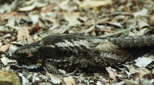 White-throated Nightjar (Eurostopodus mystacalis) Kobble Creek, SE Queensland, Australia